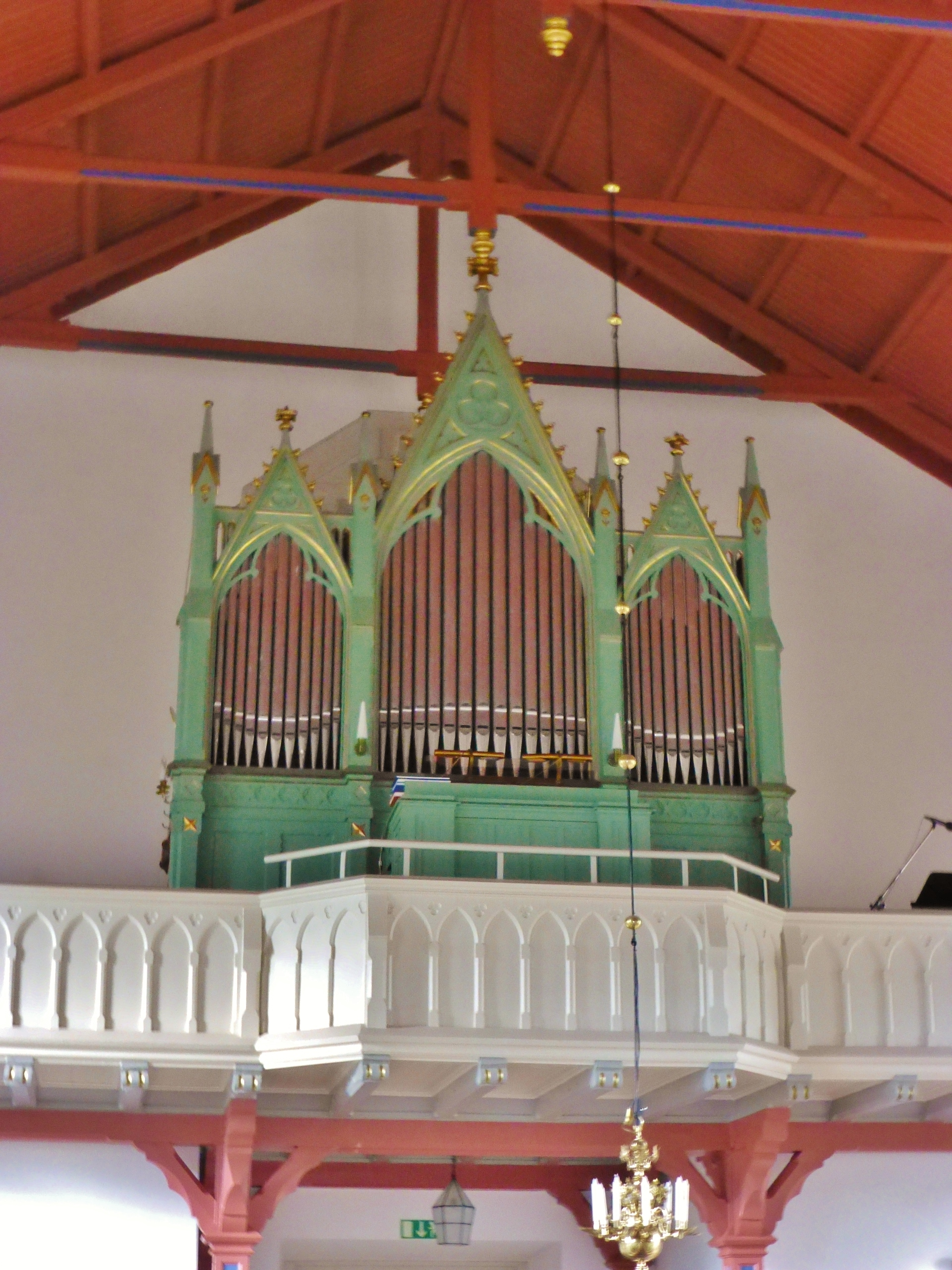 Fagerhult Church.Organ